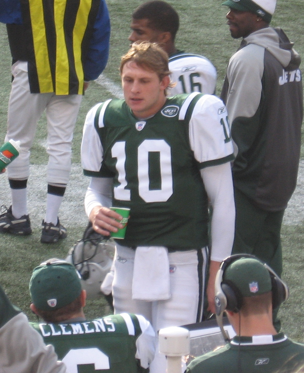 Original description: taken by me on November 26, 2006- Texans vs. Jets